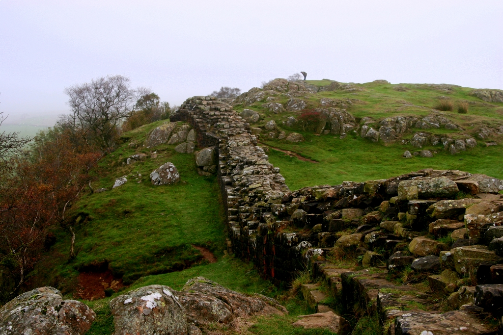 We took a short walk along the Hadrian's Wall trying to feel what the Romans must have felt walking there watching the lands of the "barbarians" to the North.